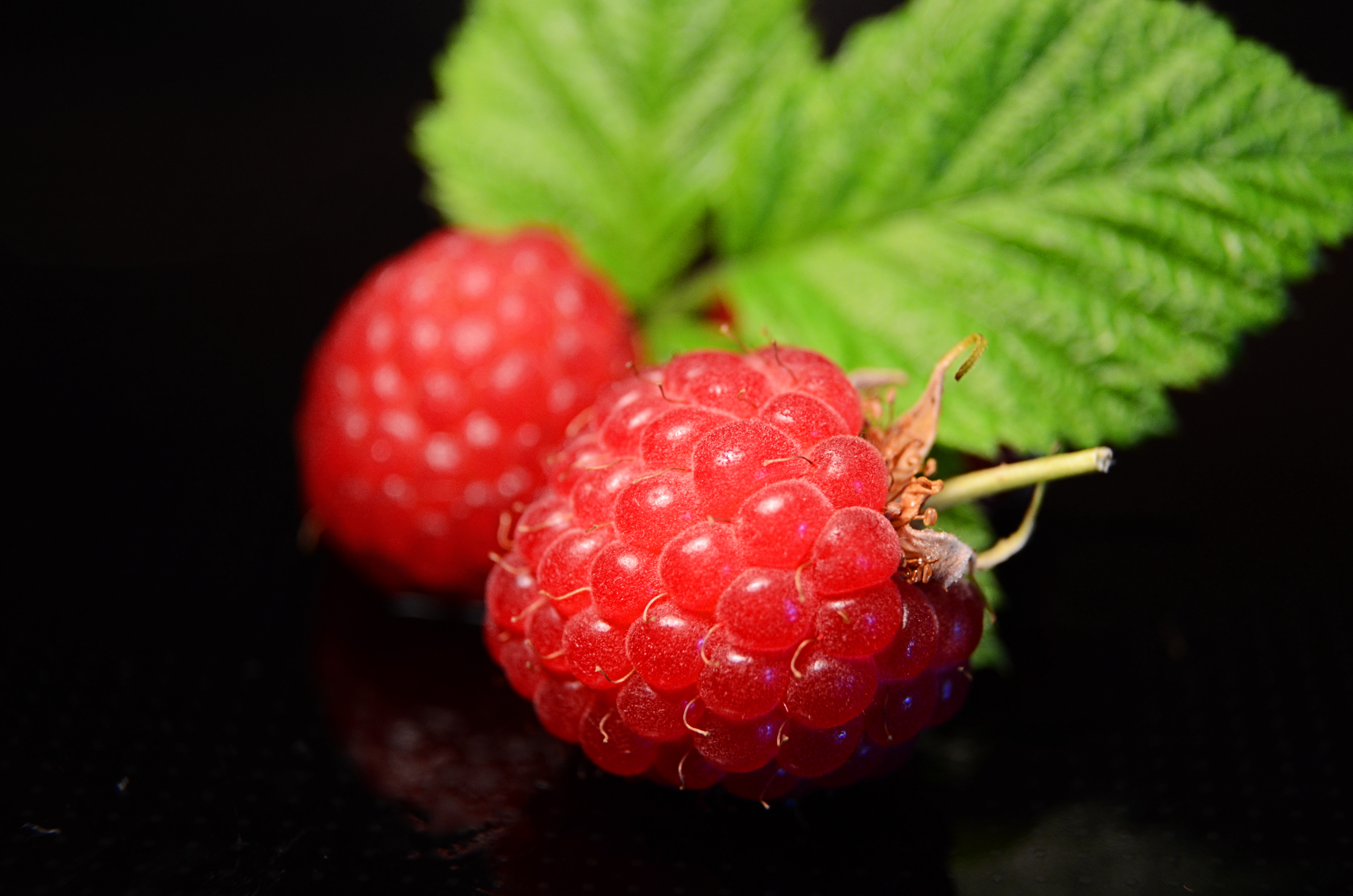 raspberry